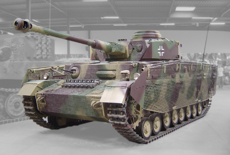 PzKpfw IV, version J on display at the Musée des Blindés in Saumur.